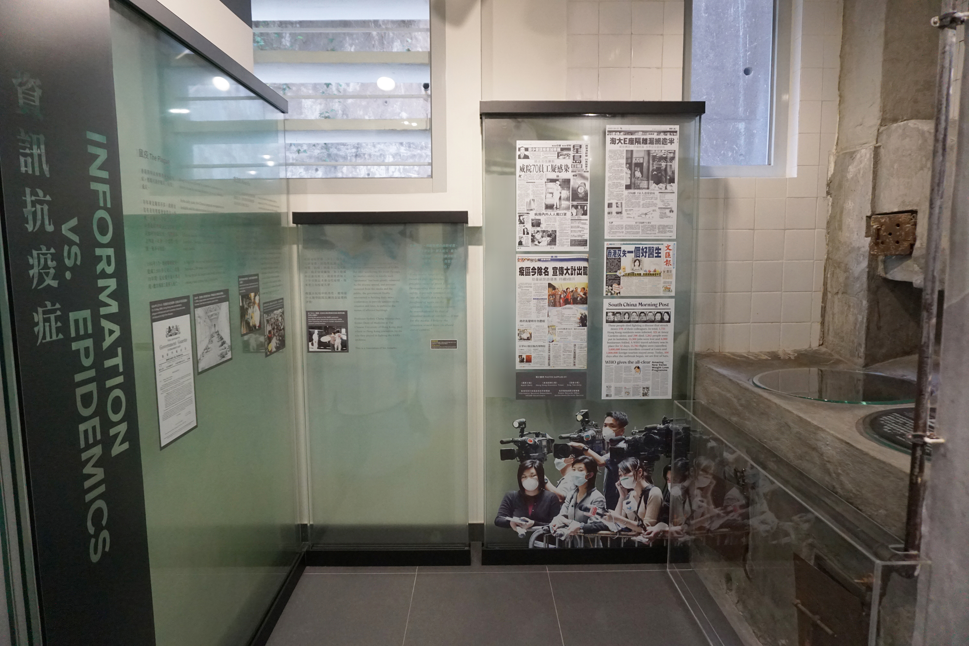 Hong Kong News-Expo in Central, Hong Kong.